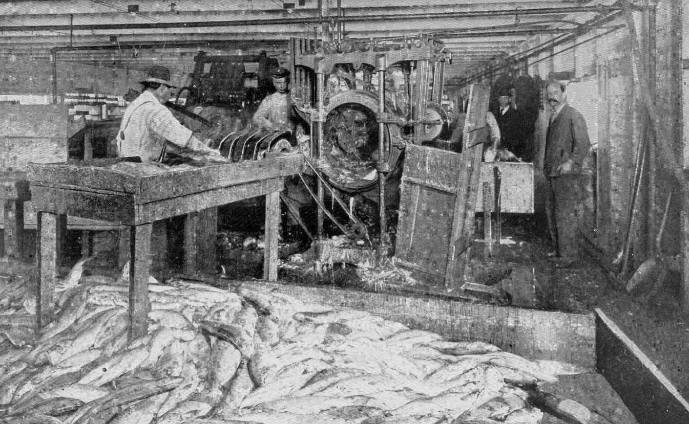 Interior of Salmon Cannery. The Iron Chink. Subject: Iron butchers, Salmon fisheires, Canneries--British Columbia Tag: Commercial Fisheries